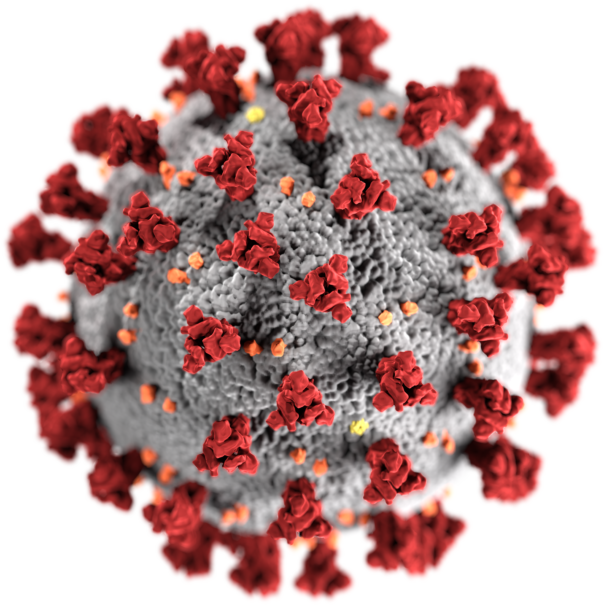 This illustration, created at the Centers for Disease Control and Prevention (CDC), reveals ultrastructural morphology exhibited by coronaviruses. Note the spikes that adorn the outer surface of the virus, which impart the look of a corona surrounding the virion, when viewed electron microscopically. A novel coronavirus, named Severe Acute Respiratory Syndrome coronavirus 2 (SARS-CoV-2), was identified as the cause of an outbreak of respiratory illness first detected in Wuhan, China in 2019. The illness caused by this virus has been named coronavirus disease 2019 (COVID-19).